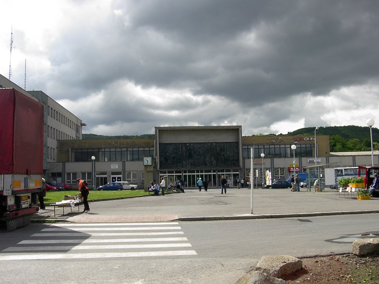 Train station in Beroun in Central Bohemian Region, Beroun district